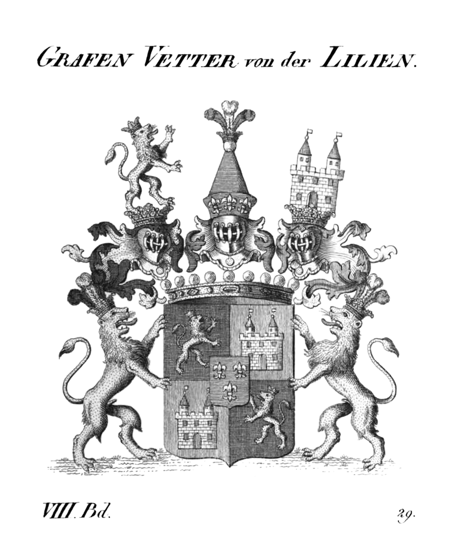 Coat of Arms of Vetter von der Lilie (Counts)